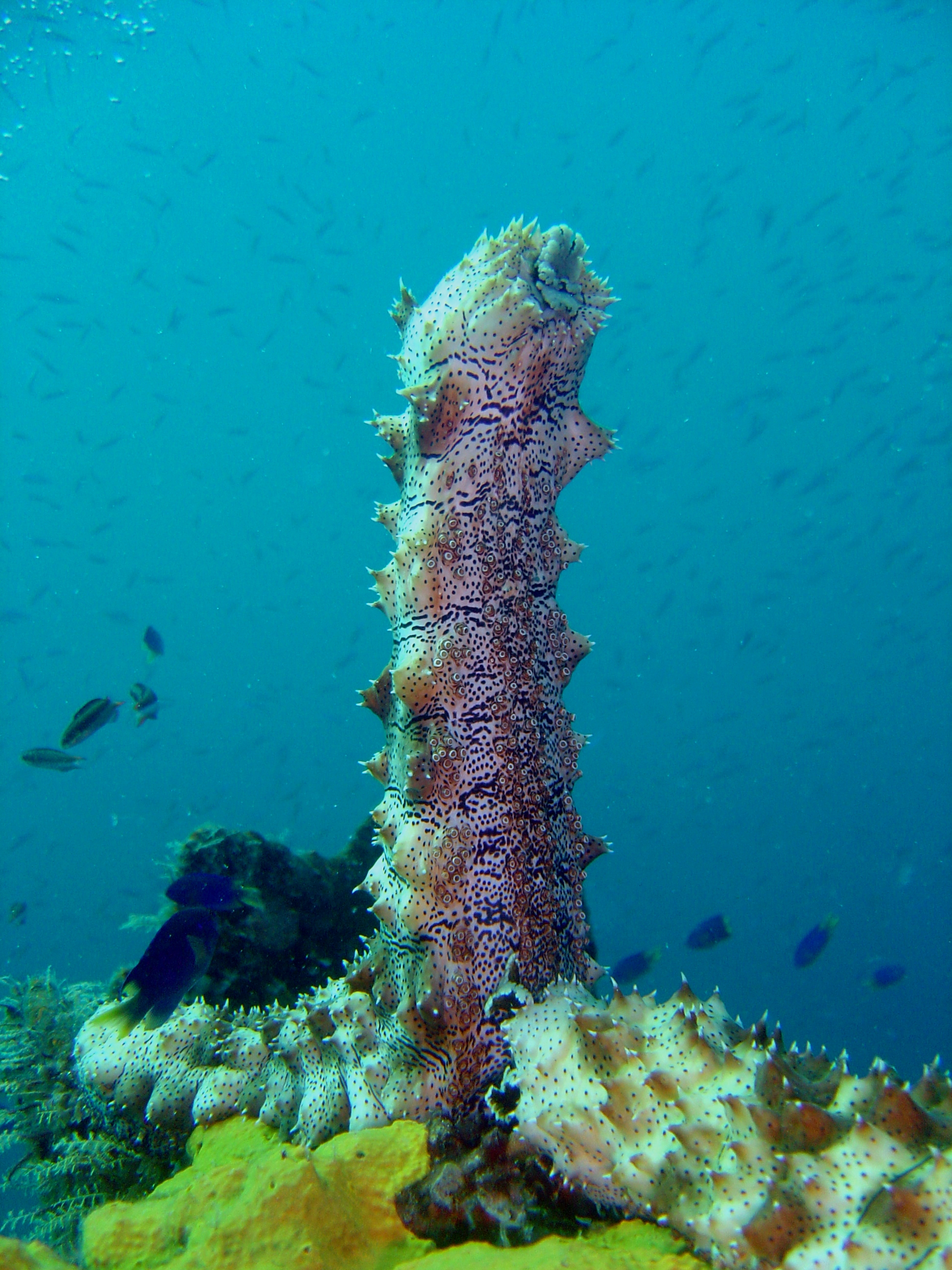 A sea cucumber (Pearsonothuria graeffei) on the Fujikawa Maru.